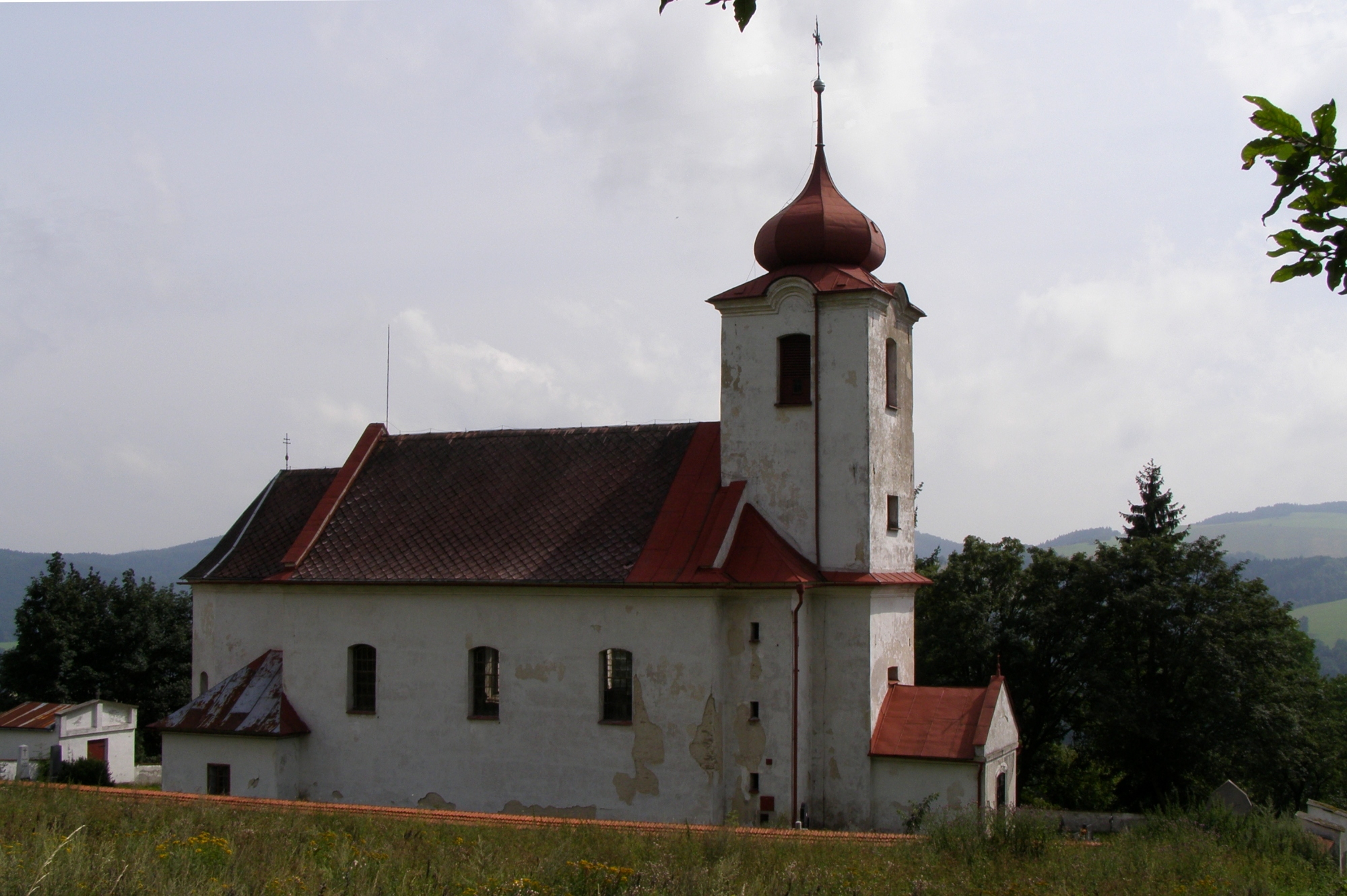 Malá Morava-Vojtíškov. Church of Nativity of the Virgin Mary